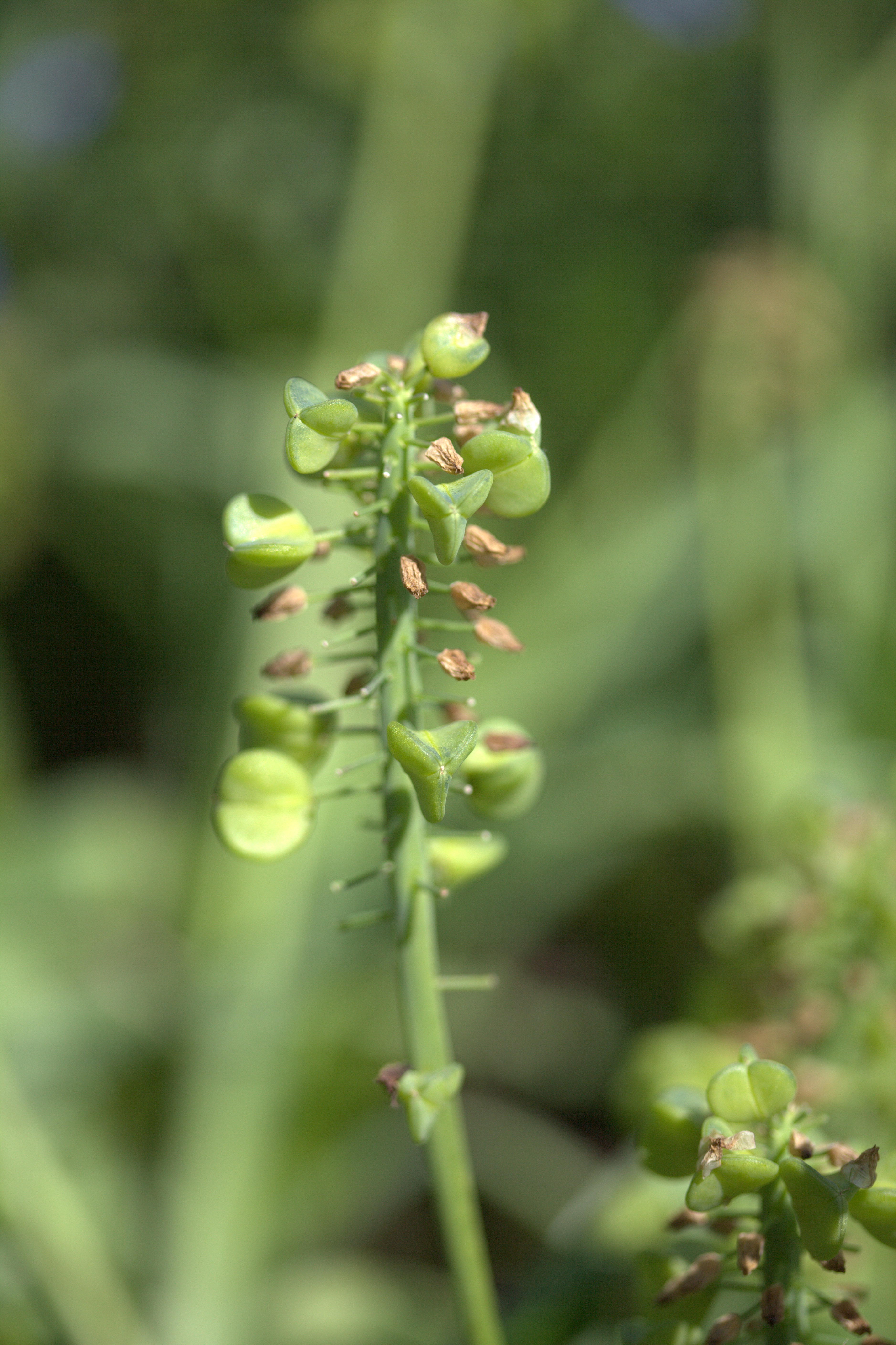 Photo taken at Gothenburg botanical garden.